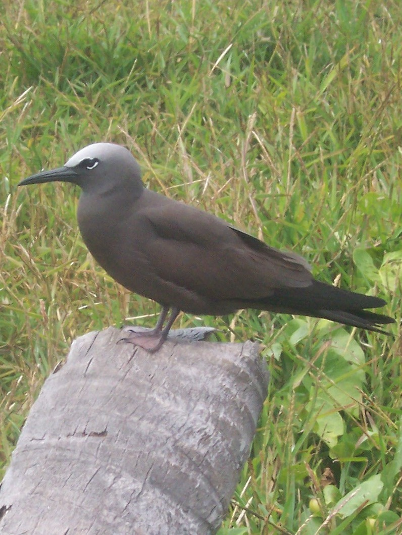 Anous stolidus (Common Noddy or Brown Noddy) on Île aux Cocos (Rodrigues island)